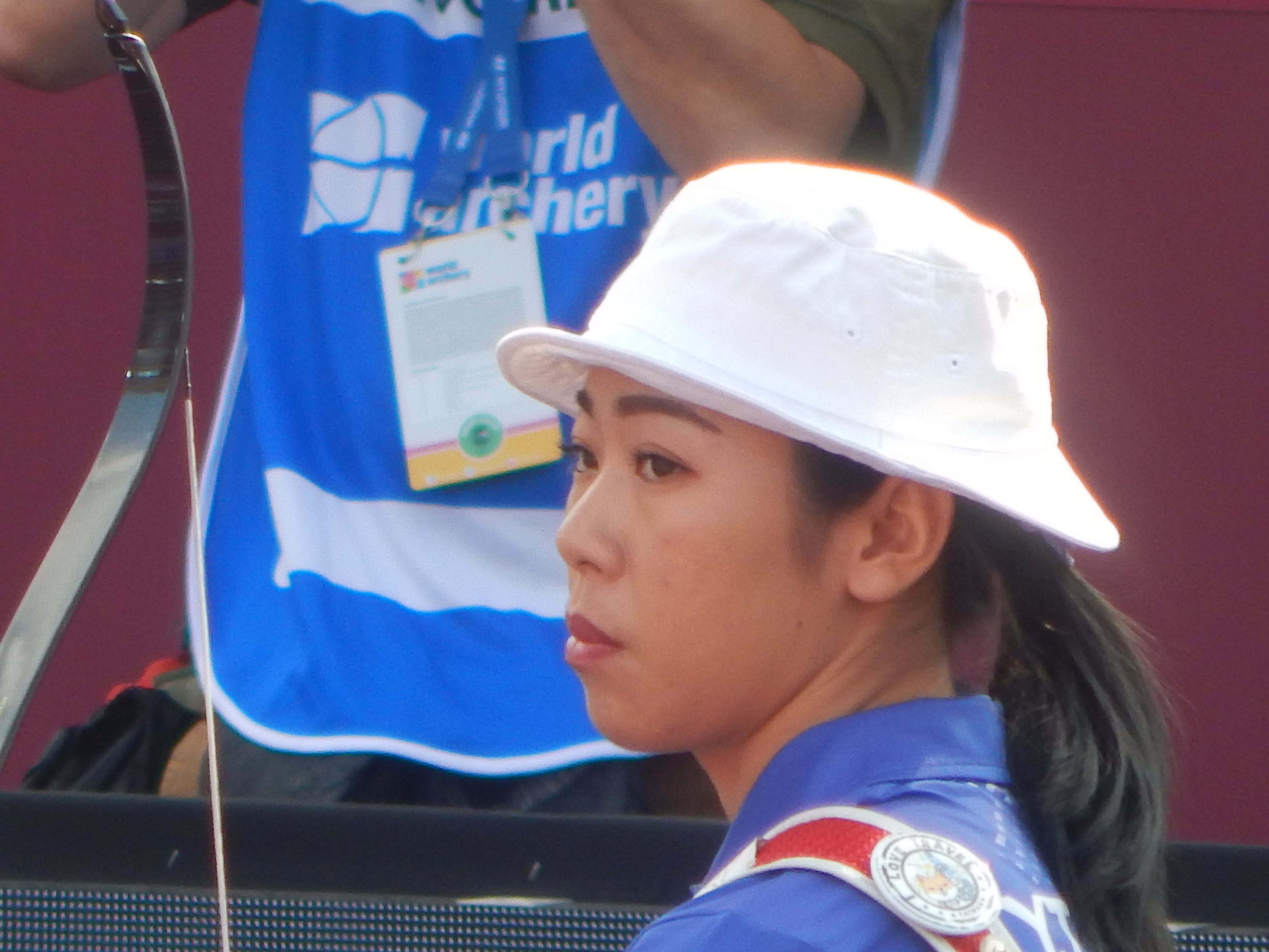 2019 Archery World Cup Final in Moscow. Women's Recurve.